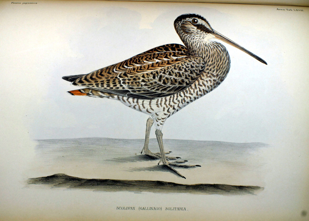 An illustration of a Solitary Snipe (Scolopax (Gallinago) solitaria = Gallinago solitaria) from Fauna Japonica.